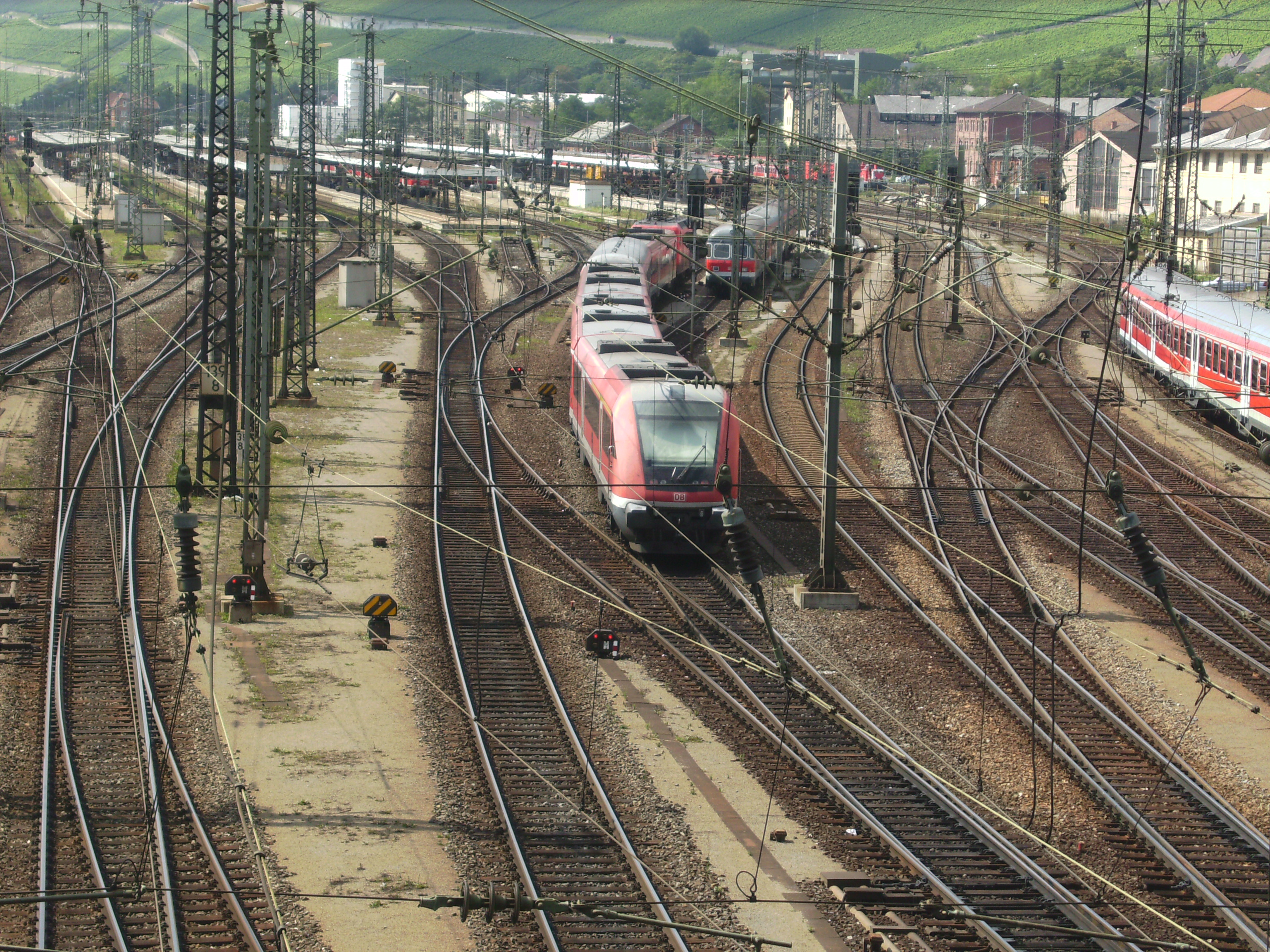 A regional train from Nürnberg arrives at Würzburg main station. It consists of a locomotive (Class 112), four Modus rail cars and one modernized "Silberling".